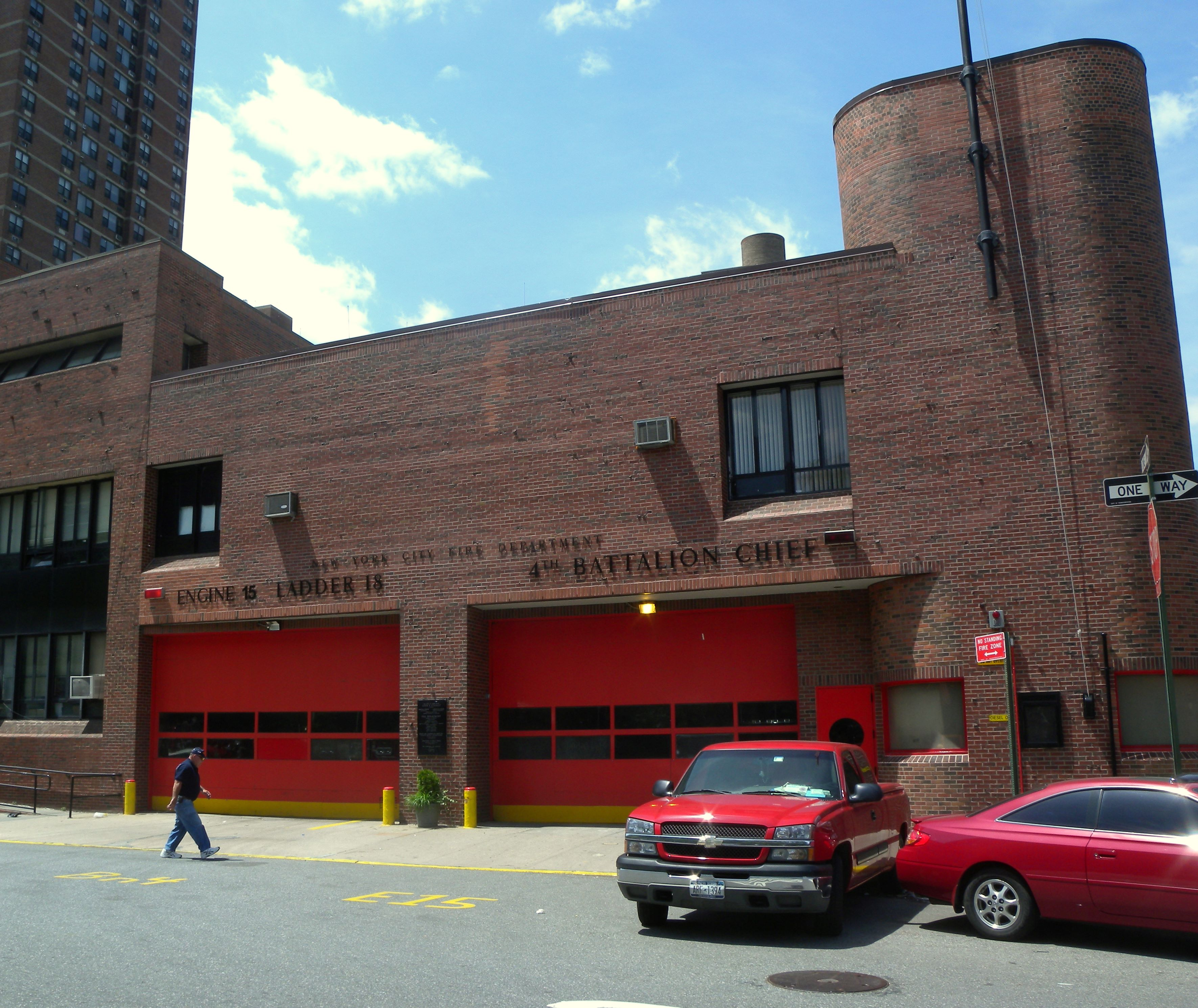 Looking west across Pitt Street at 4th Battalion firehouse with 7th Precinct NYPD in background on a sunny midday.